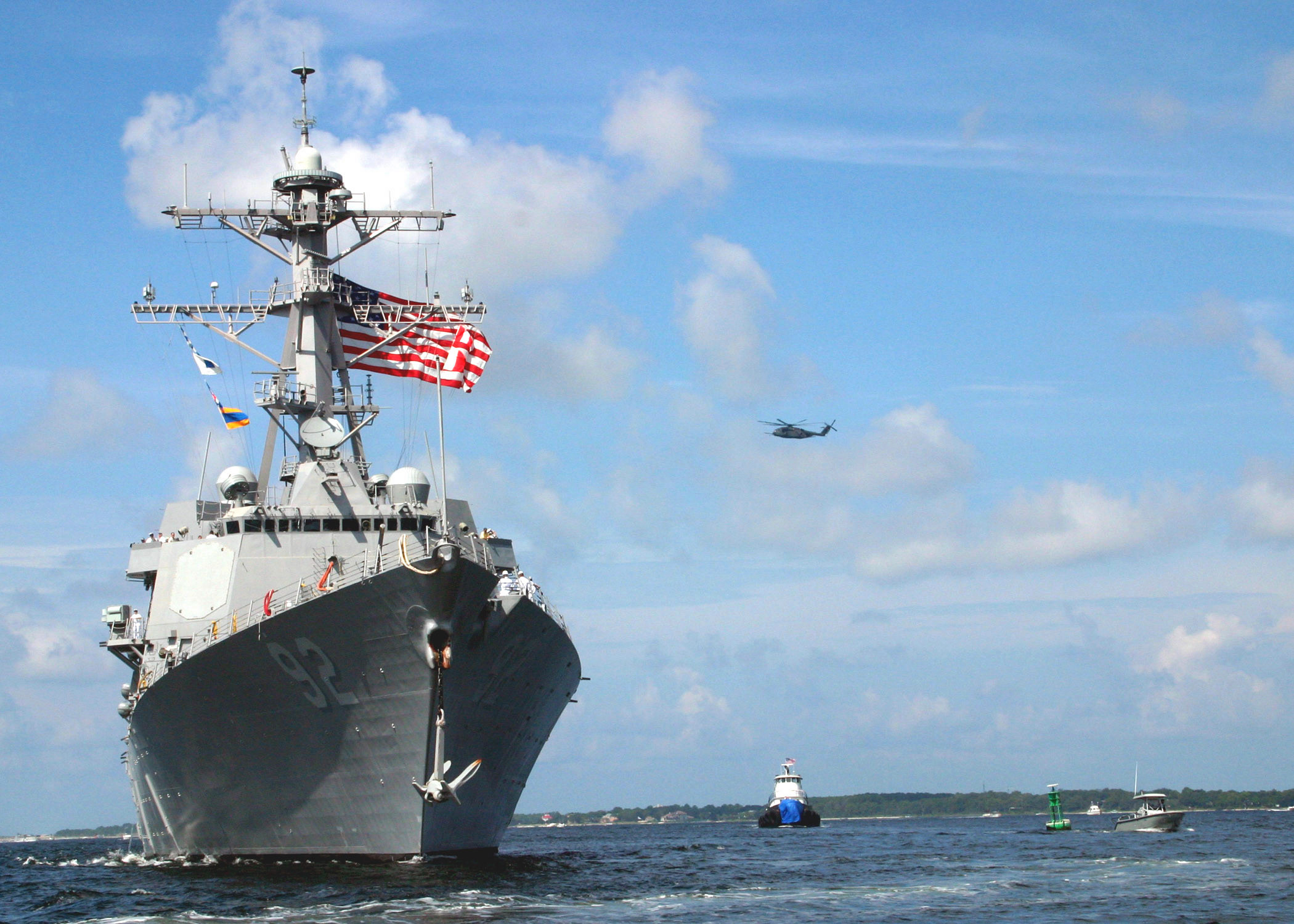 Panama City, Fla. (Aug. 20, 2004) - The Navy’s newest guided-missile destroyer, Momsen (DDG 92), receives a full escort by a helicopter and a high-speed patrol boat as the ship pulls into Panama City. Momsen will be commissioned on Aug. 28, 2004, in Panama City in honor of Vice Admiral Charles “Swede” Momsen. Admiral Momsen is best known for the development of a submarine escape breathing apparatus, which became known as the “Momsen Lung.” His contributions to the Naval Diving Community are honored with the commissioning of the Navy’s newest destroyer bearing his namesake. U.S. Navy photo by Photographer's Mate 1st Class Dawn C Montgomery (RELEASED)